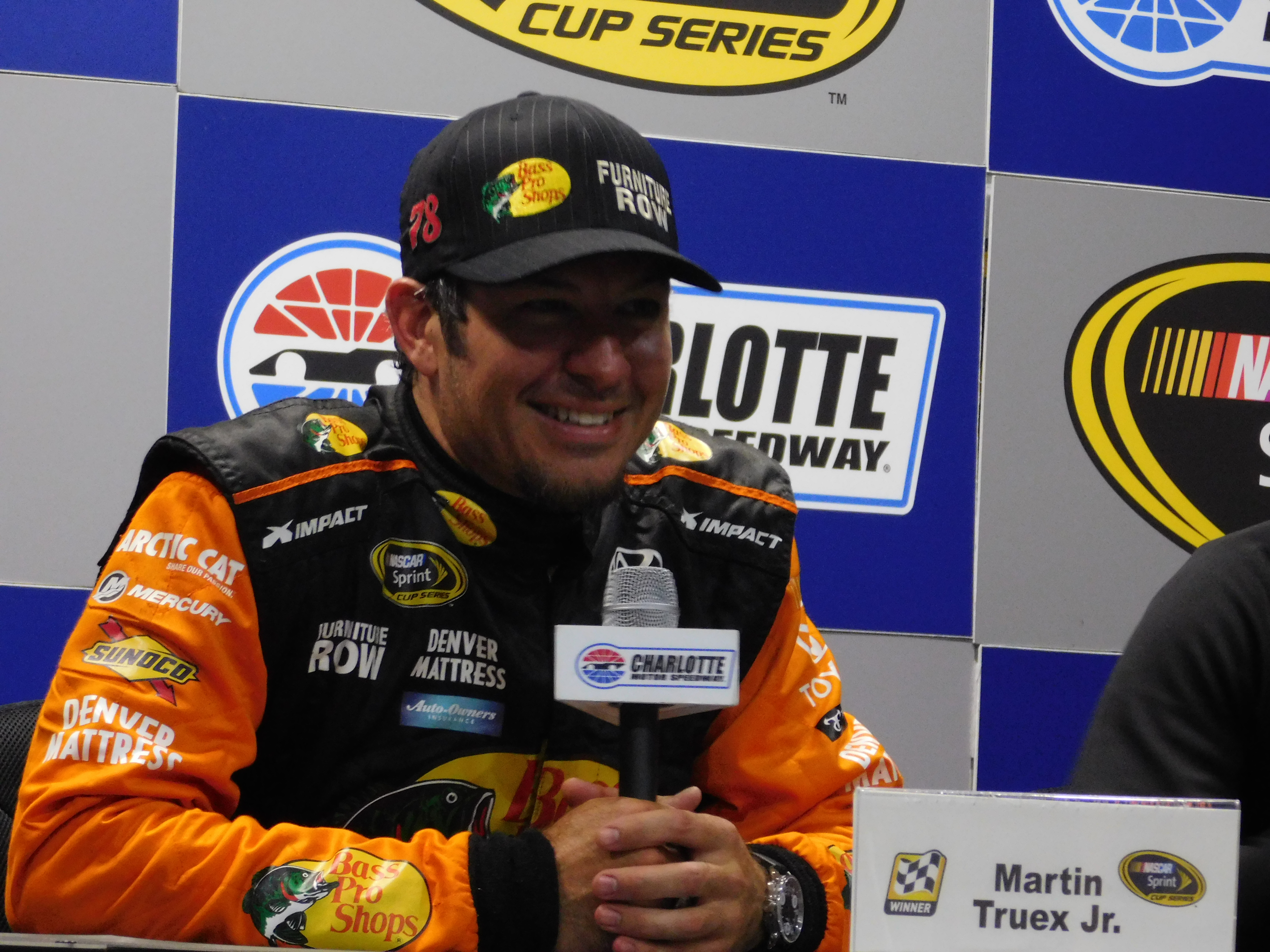 Martin Truex. Jr. speaks to the press after winning the 2016 Coca-Cola 600 at Charlotte Motor Speedway.